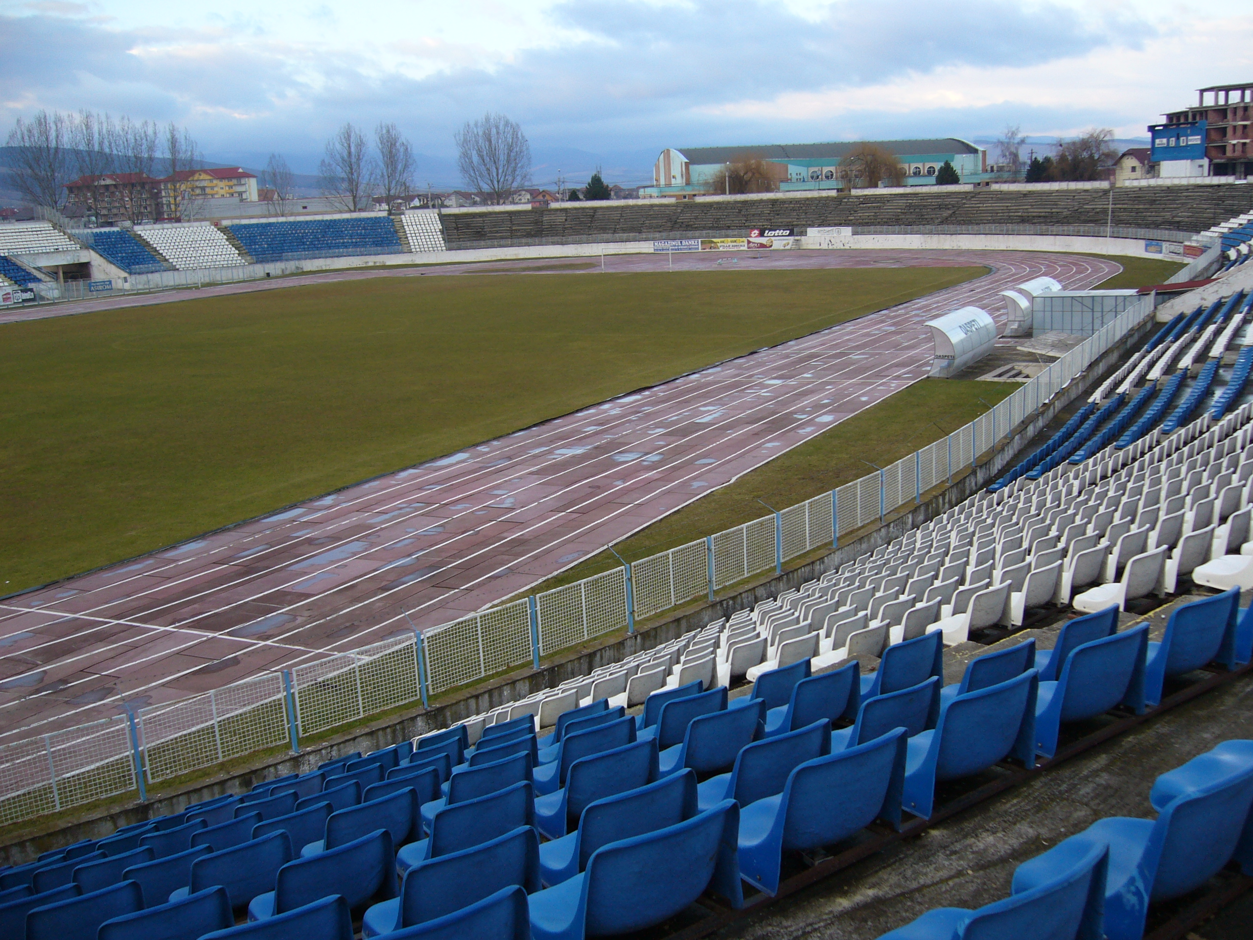 A photo of Victoria-Cetate stadium from the second stand.